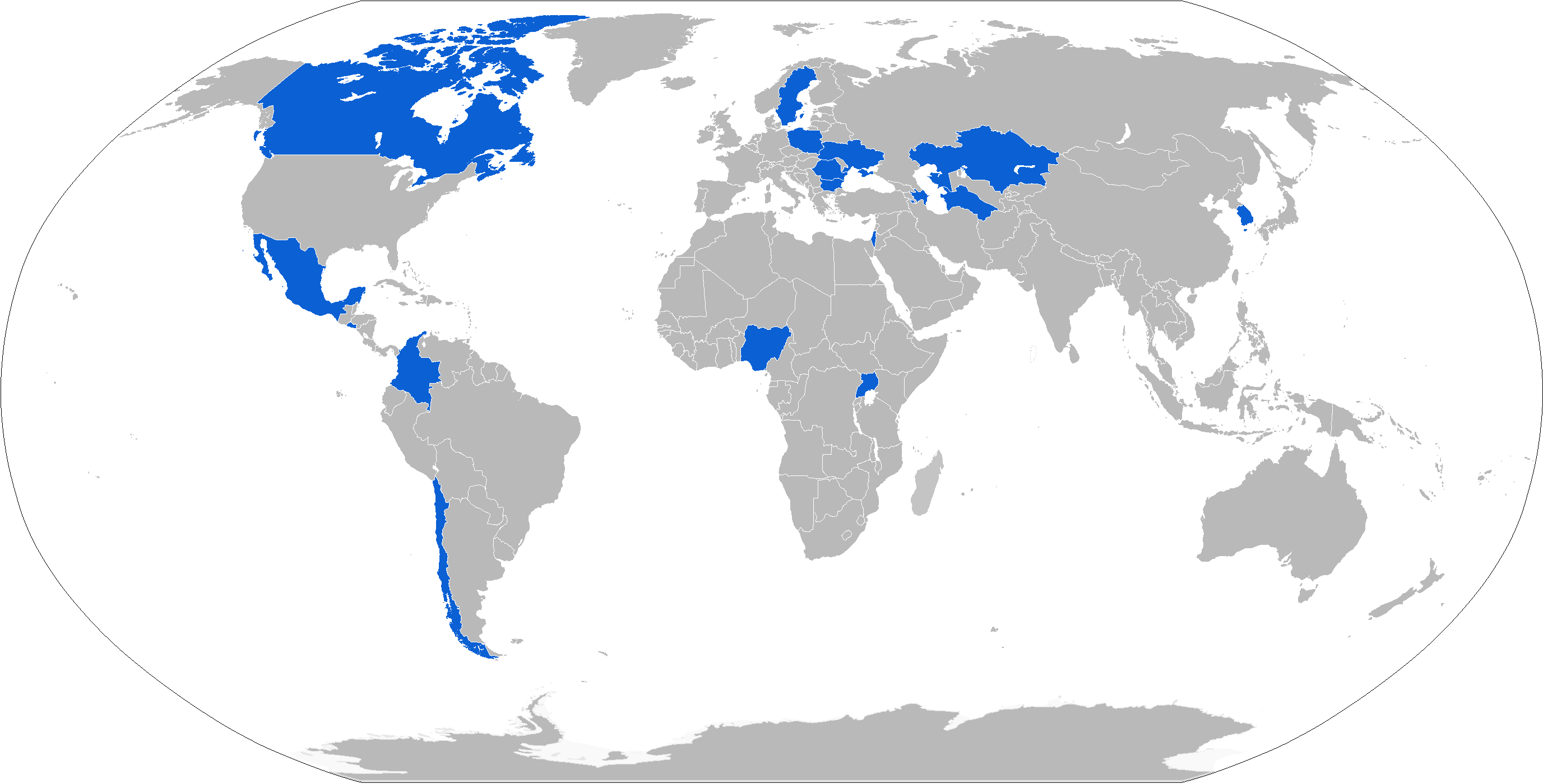 Map with Sand Cat operators in blue